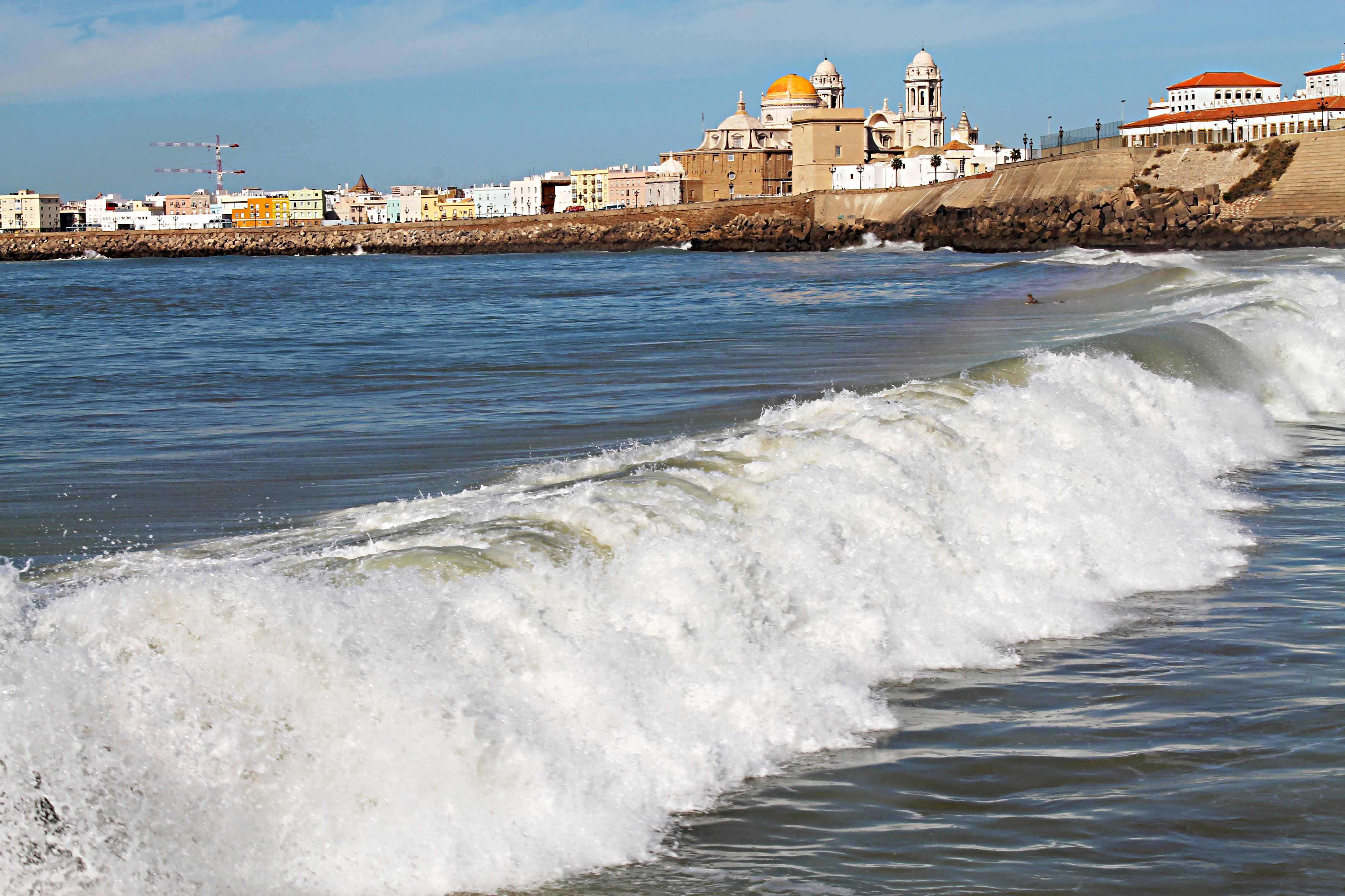 view from the beach close to the center of Cadiz